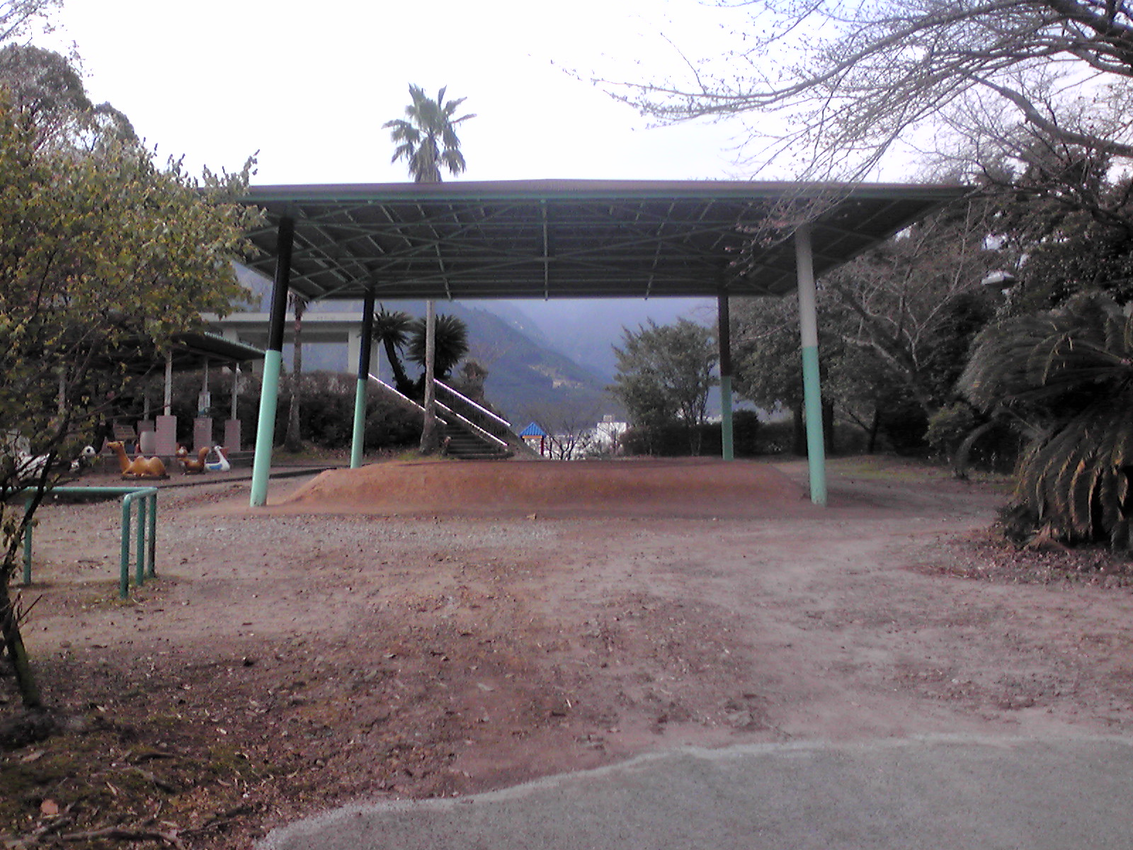 中村山城の本丸跡